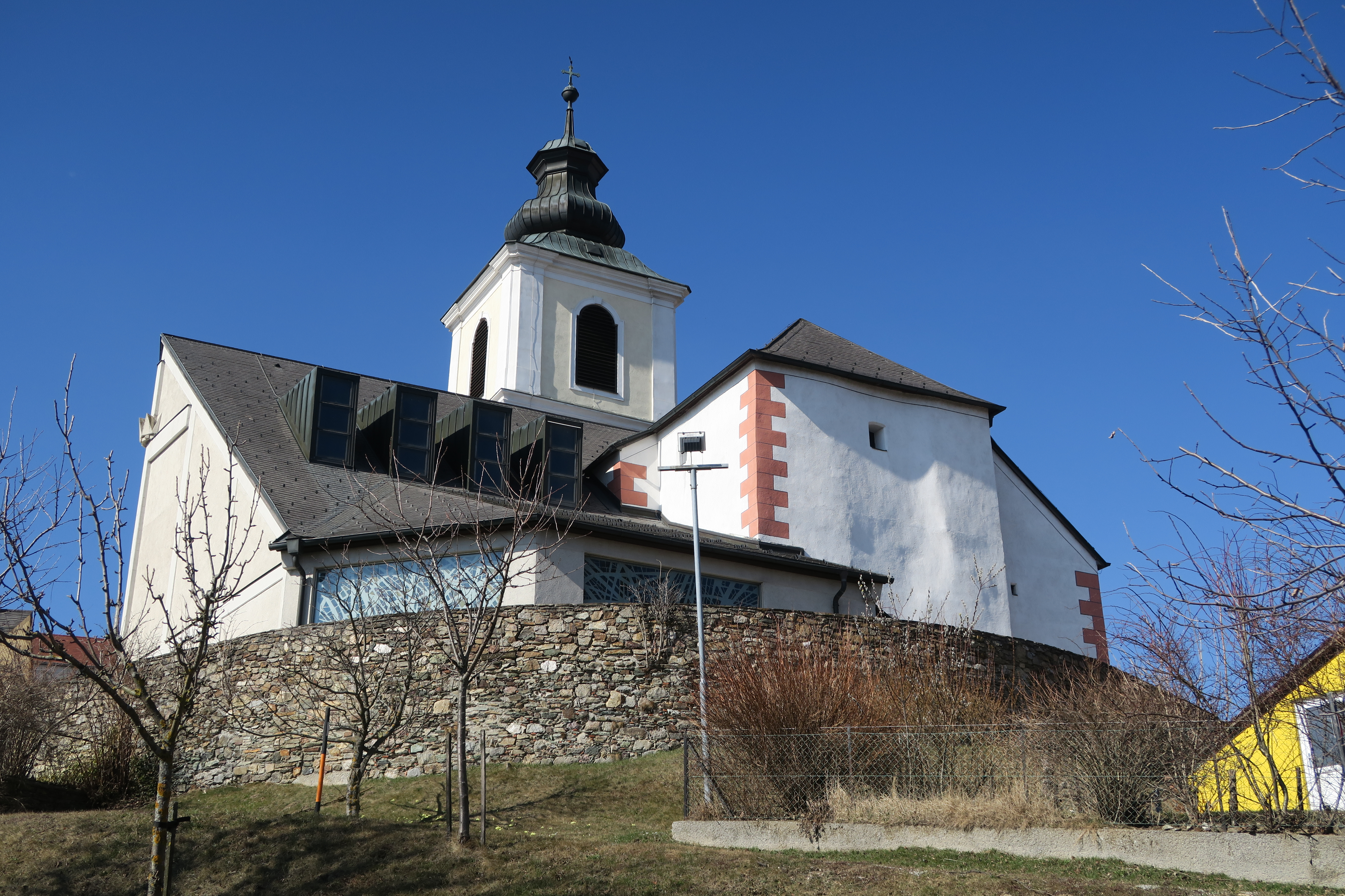 Hochneukirchen